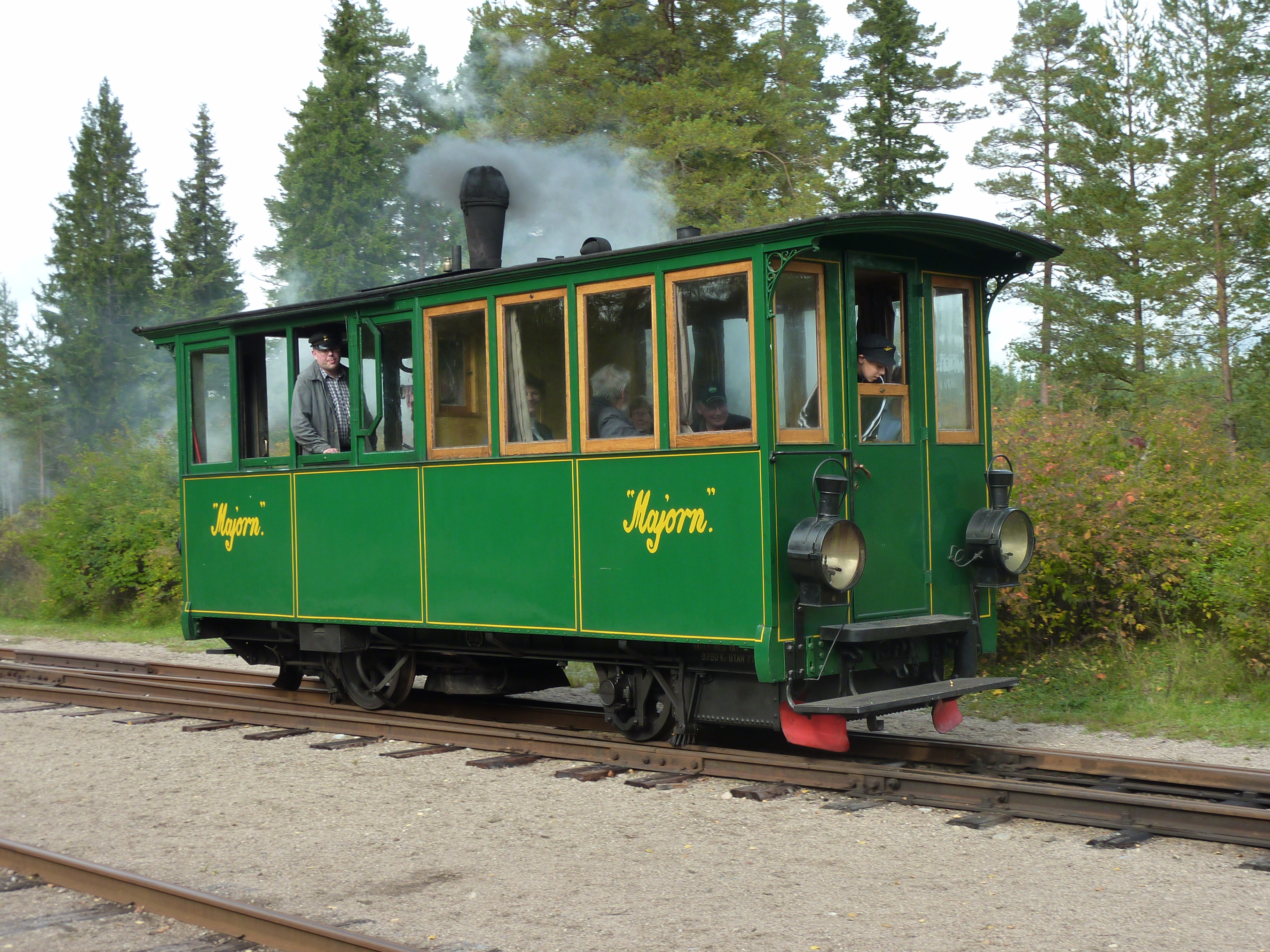 Steam wagon "Majorn" at Tallås, at Jädraås - Tallås museum railway (JTJ) in Sweden